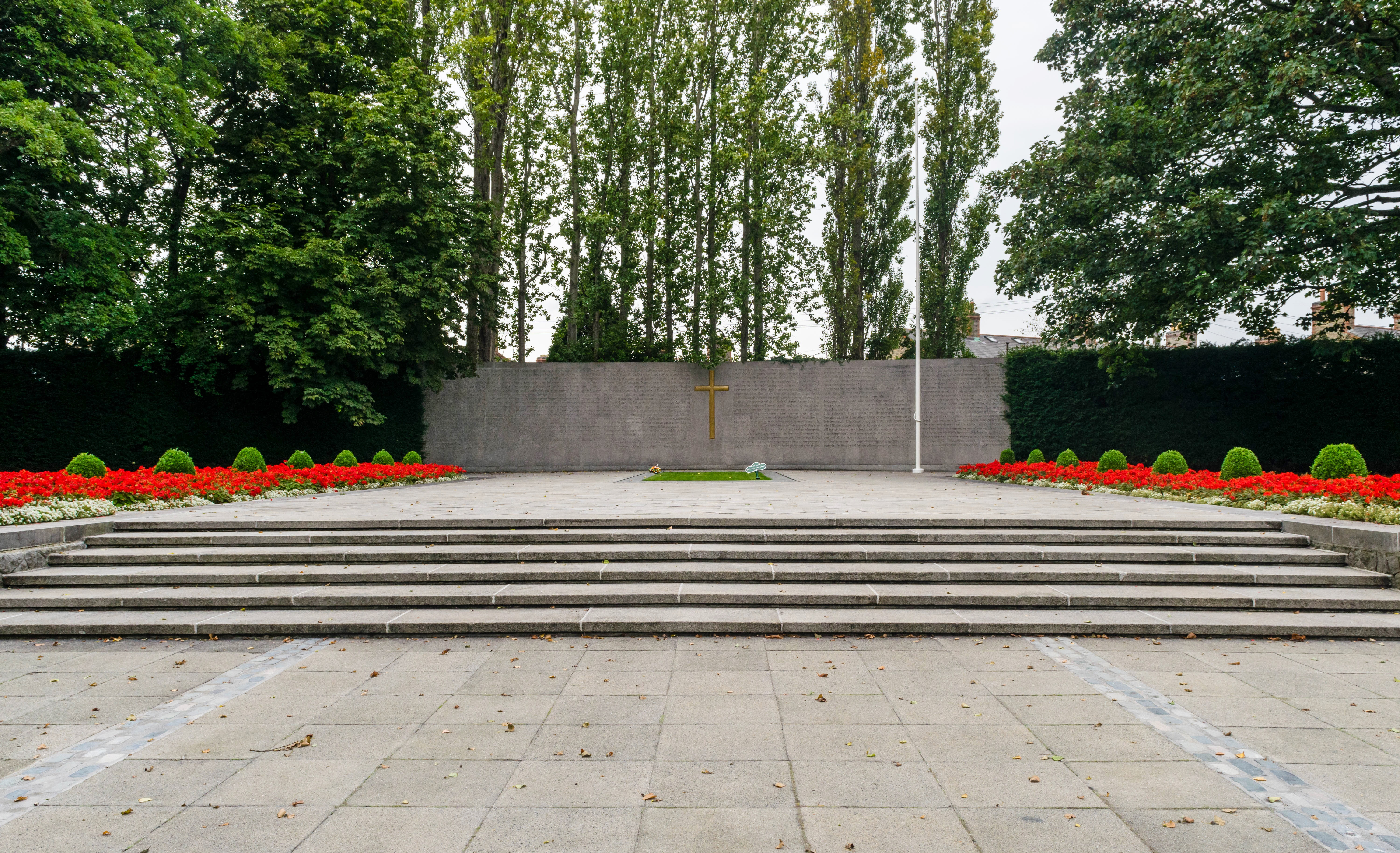 This photo has been taken in the country: Ireland